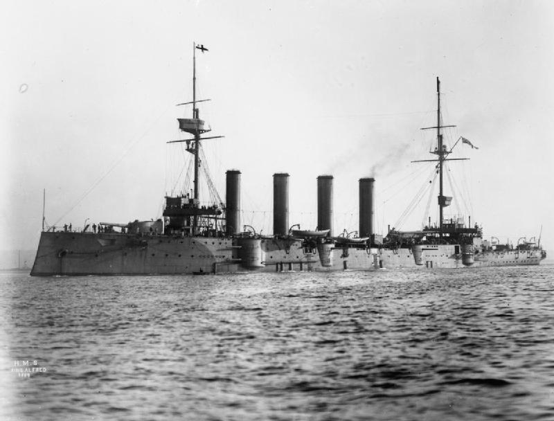 Photograph of British Drake class armoured cruiser HMS King Alfred.